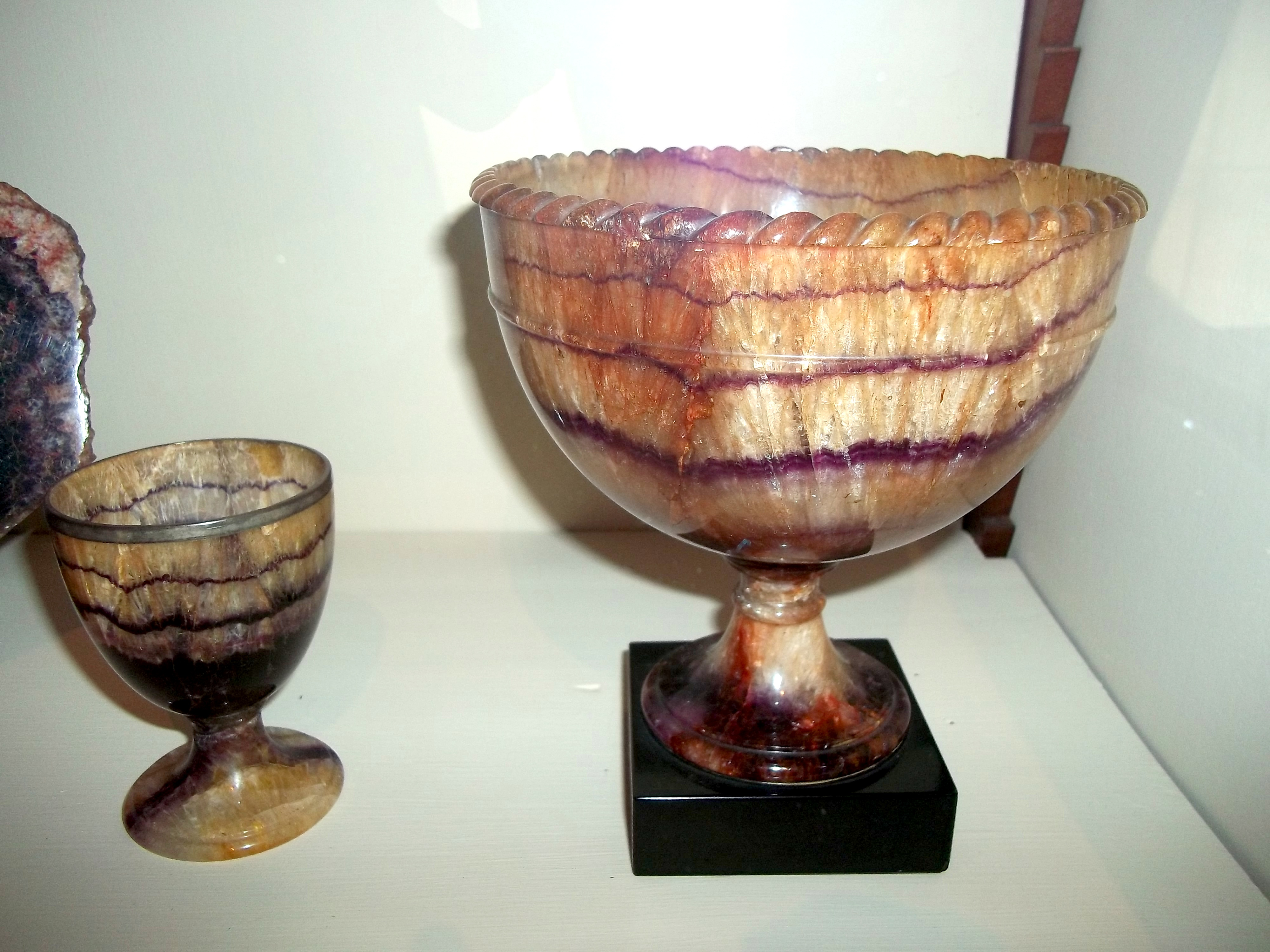 Goblets (or vases) made from Derbyshire Blue John. Located among the rock collection of Georgiana Cavendish, Duchess of Devonshire in Chatsworth House.